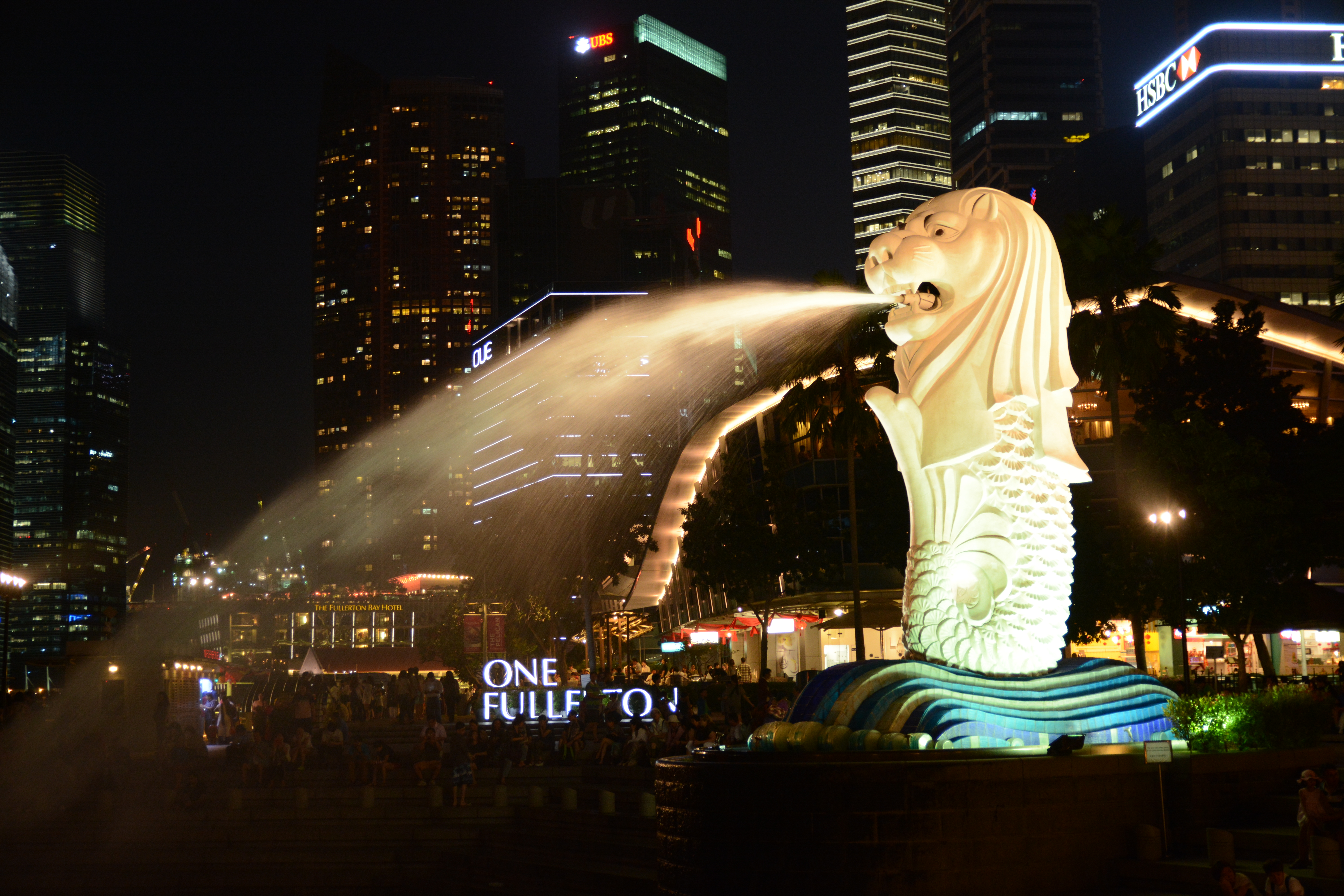 The large Merlion statue in Merlion Park, Singapore, at night.